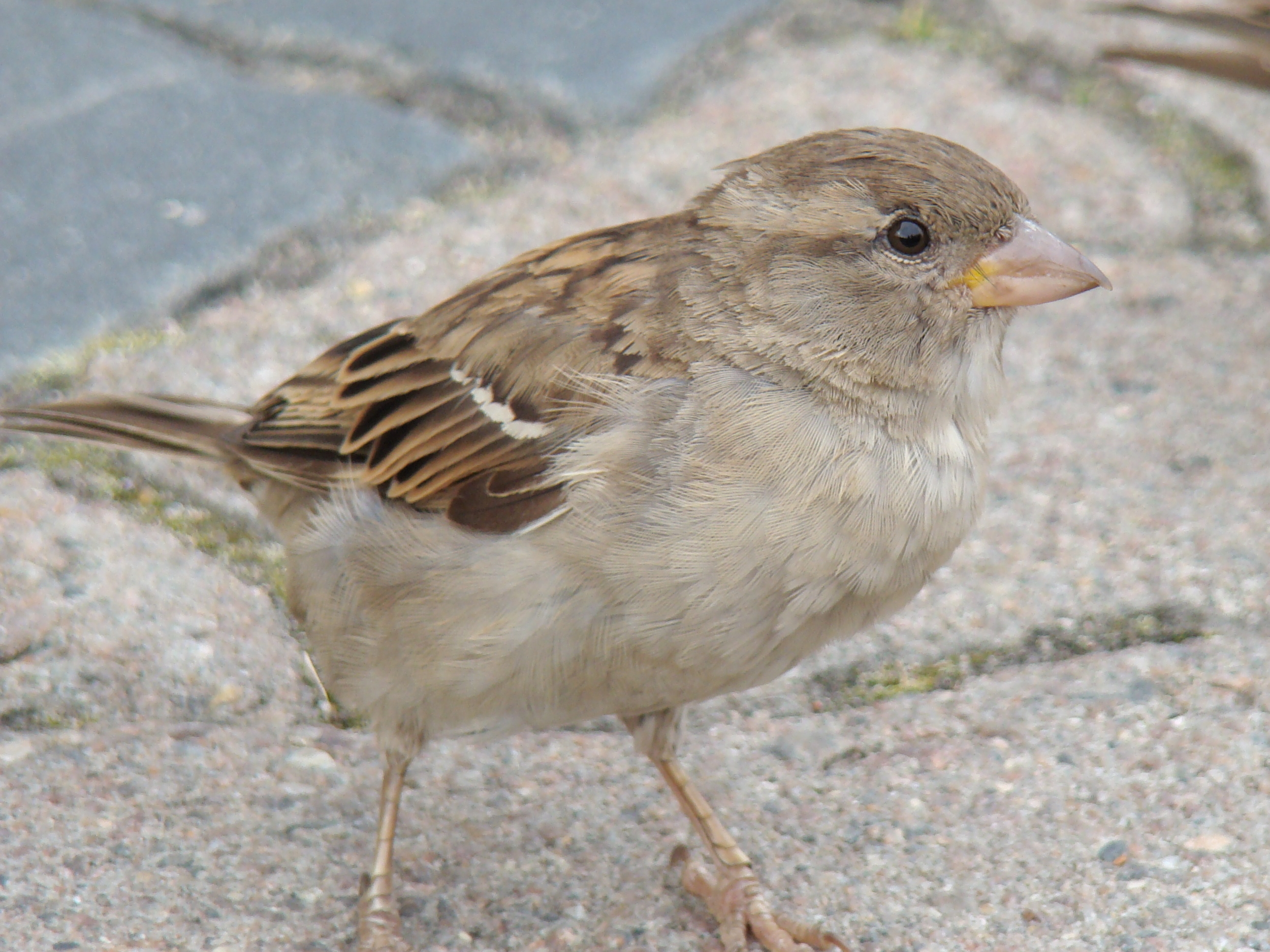 Photo of the female House Sparrow ( {Lotyniskai } ) in Vilnius, Lithuania.